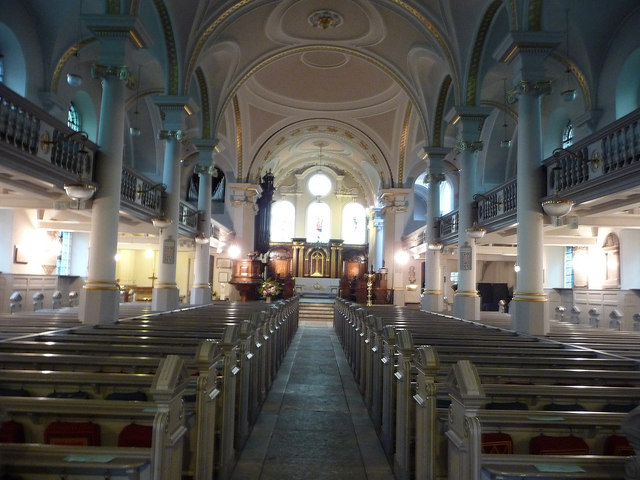 St John at Hampstead, interior, near to Hampstead, Camden, Great Britain.